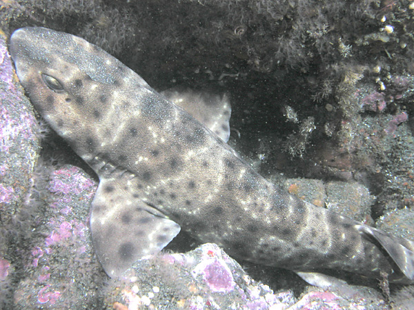 Swell Shark, San Clemente Island, California. Image taken by Clark Anderson/Aquaimages.